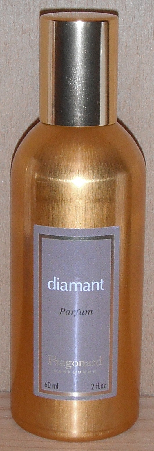 Fragonard - PARFUMEUR Parfums Diamant (French perfume)